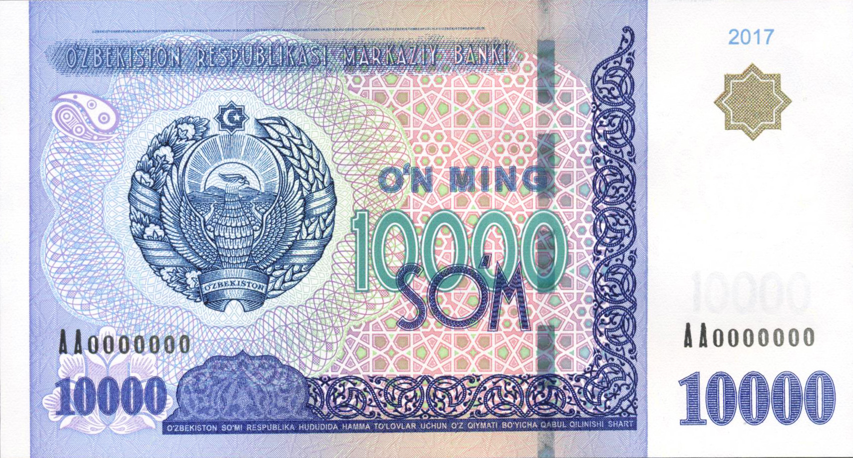 10000 soms of Uzbekistan (2017)